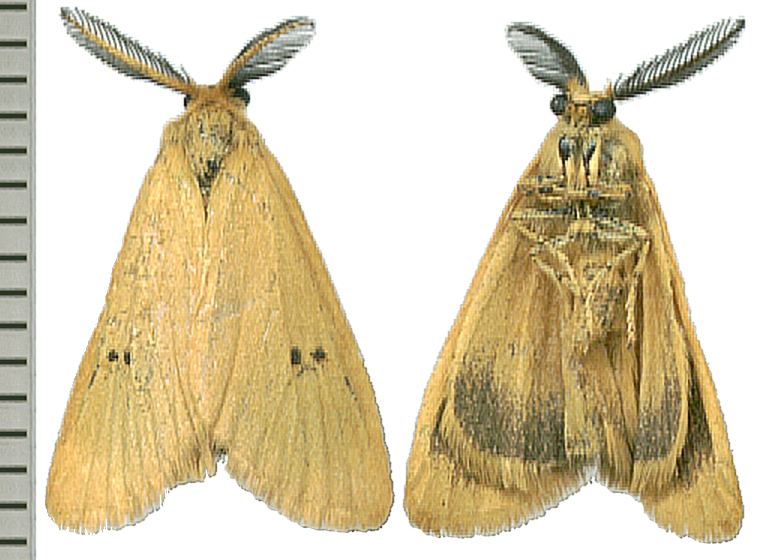 B. quadripunctata specimen collected in 2003 in Faerie Glen, suburban Pretoria. The ruler gives millimeters.